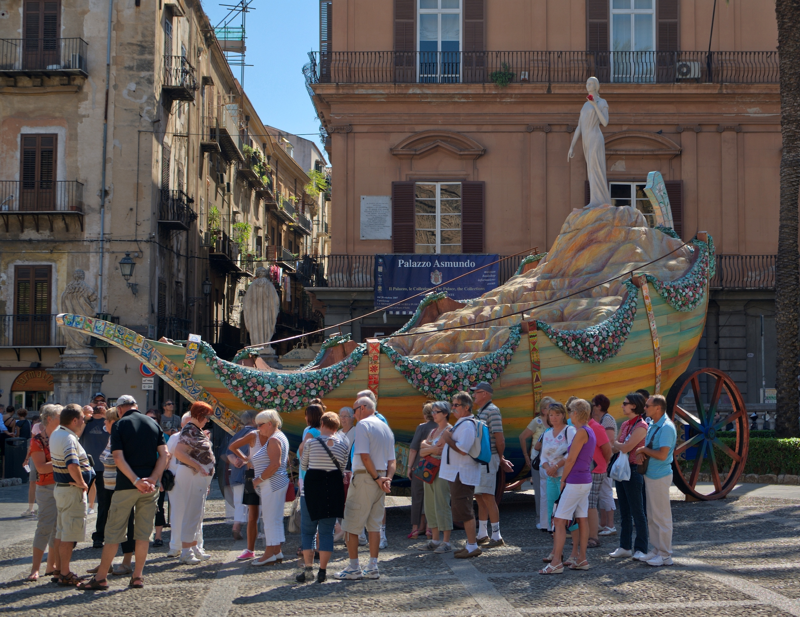 Italy, Sicily, Palermo, cathedral